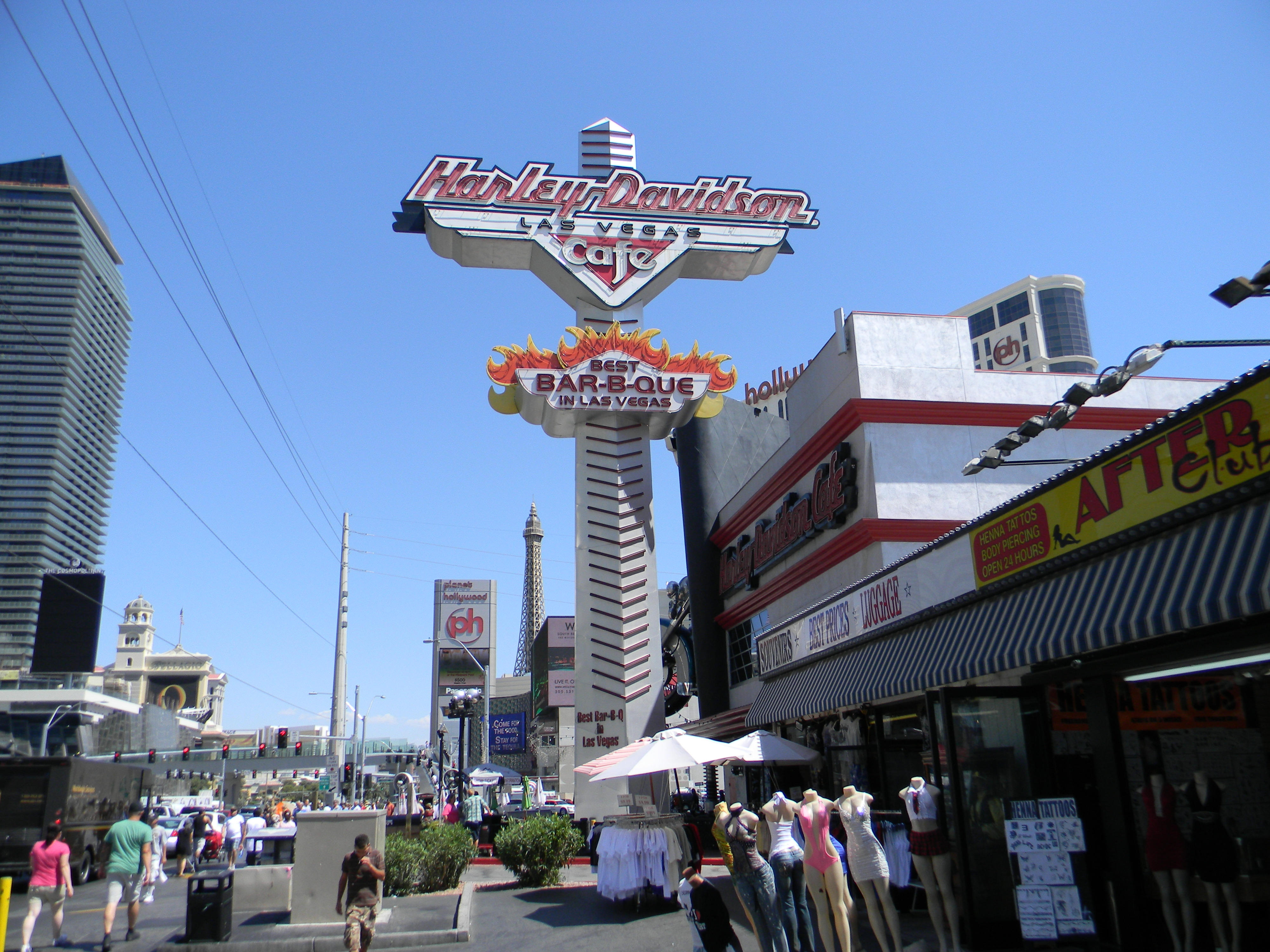 Harley Davidson Cafe on The Strip (Las Vegas, Nevada)